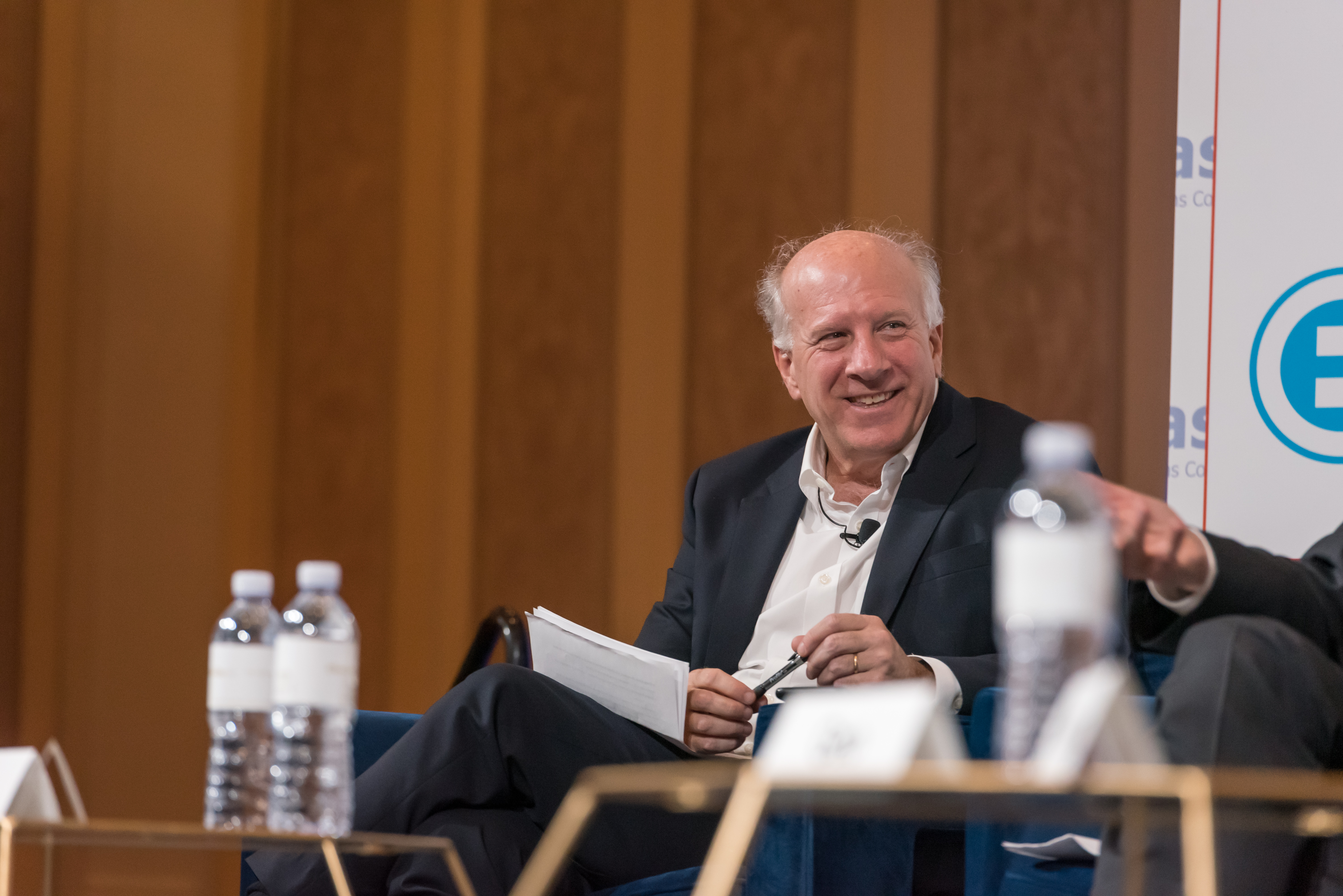 Adi Ignatius, Editor-in-Chief, Harvard Business Review, USA, chairing a plenary panel at Horasis Global China Business Meeting 2019